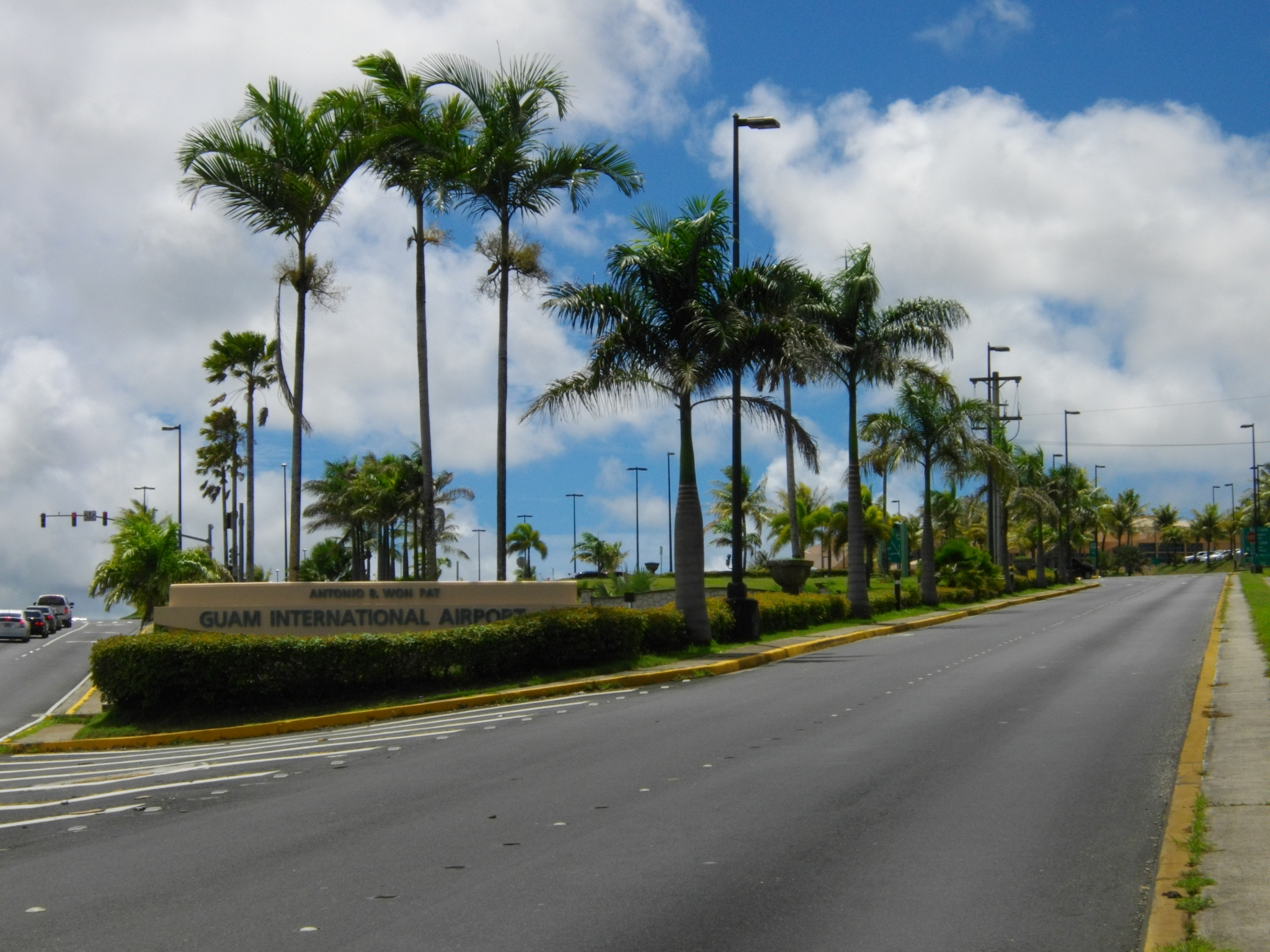 Entrance to Guam International Airport